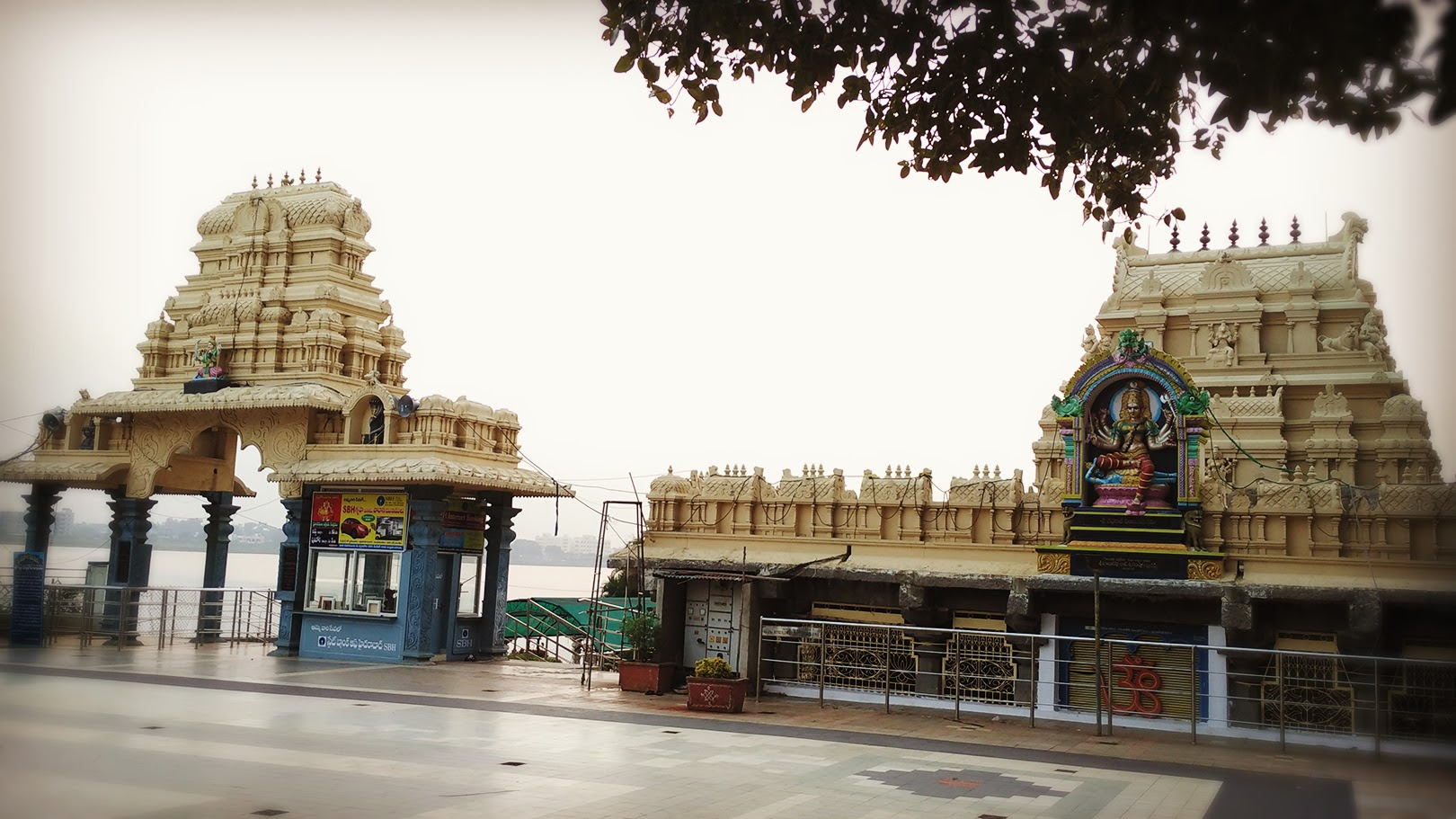 Bhadrakali Temple is the most visited places in Warangal along side of Ramappa and Thousand pillar temple